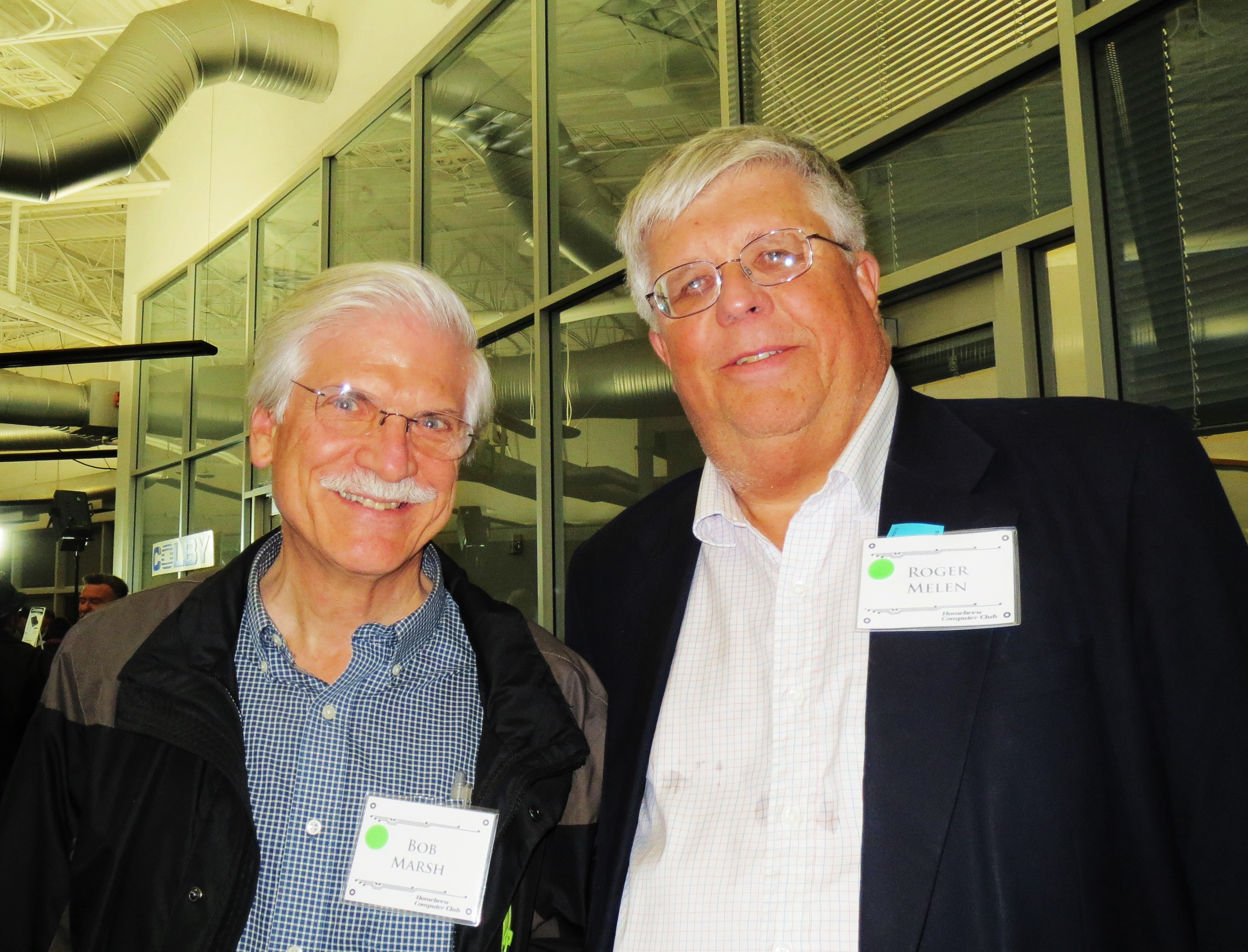 Bob Marsh (Processor Technology) and Roger Melen (Cromemco) Nov 11, 2013 at the 38th Anniversary Reunion of the Homebrew Computer Club held at the Computer History Museum in Mountain View, California.